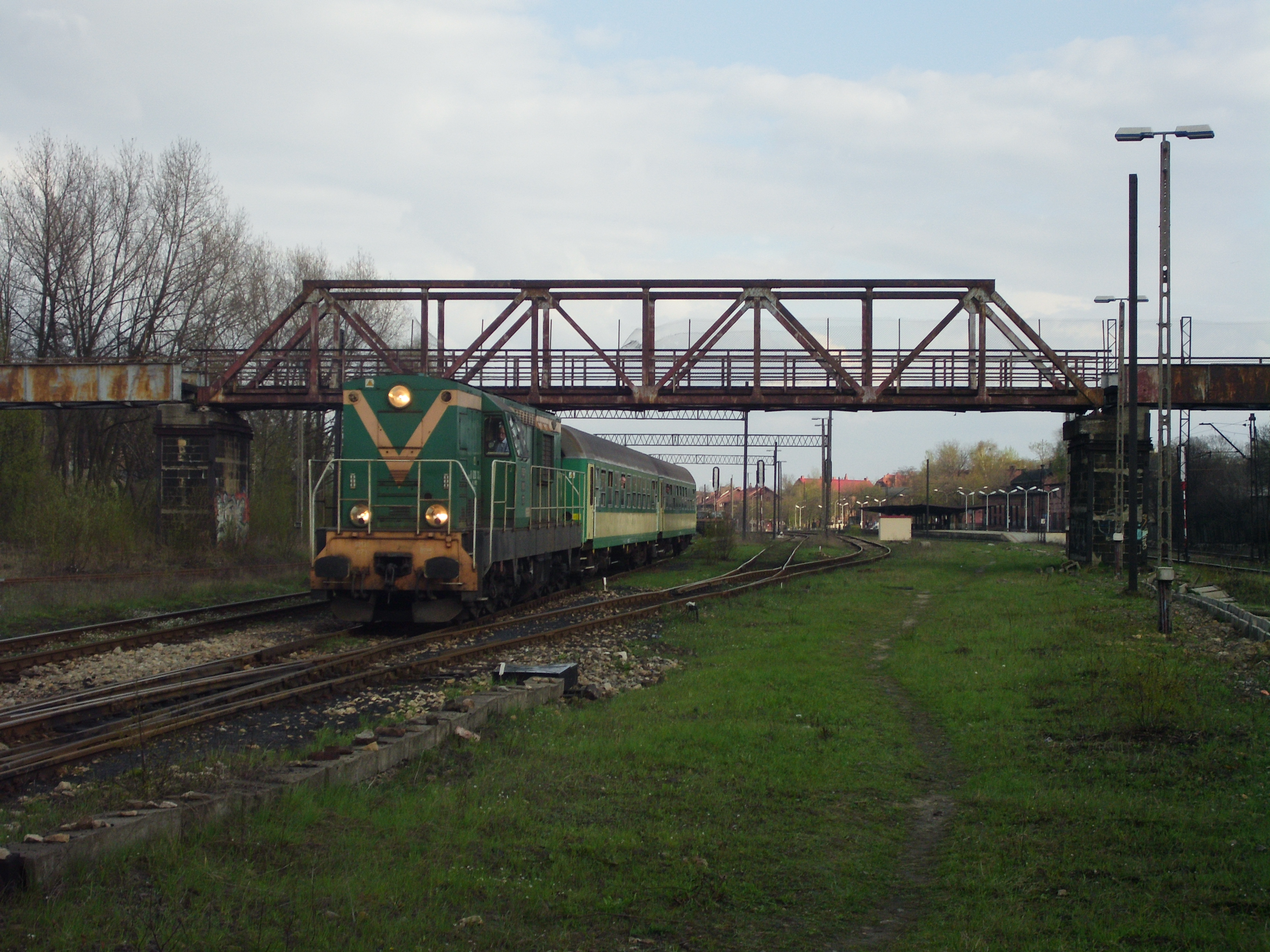 A tourist train on non-electrified tracks in Ruda Śląska-Chebzie, before leaving towards Zabrze Biskupice along route 189.